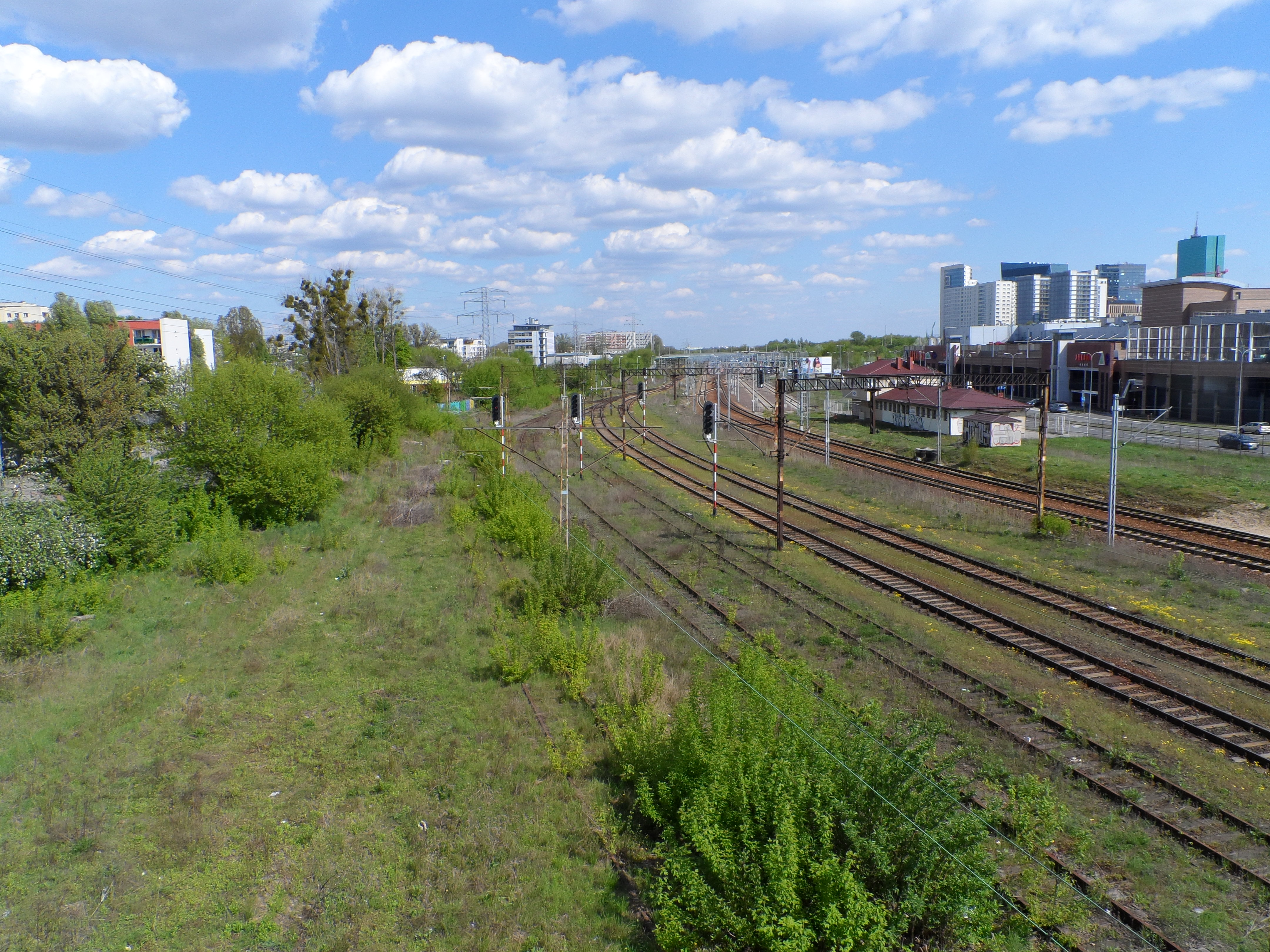 Warsaw railway circle (segment between Zgrupowania AK "Radosław" Roundabout and Dworzec Gdański).